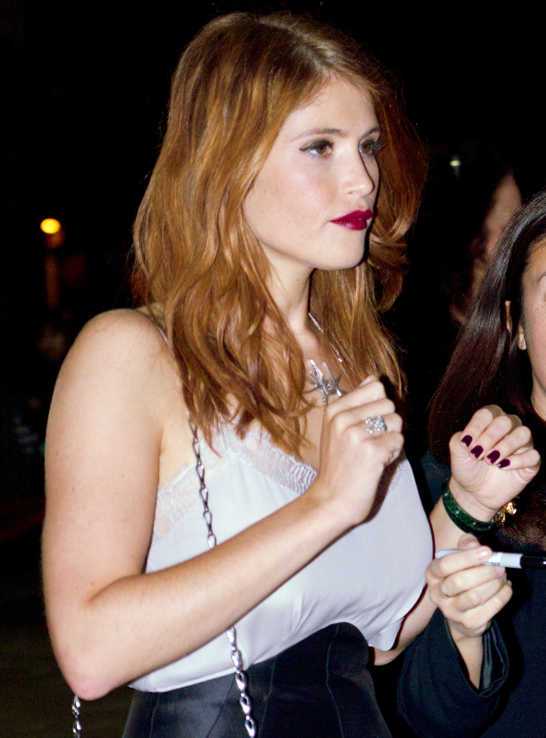 Gemma Arterton at the premiere of Byzantium, in the Toronto Film Festival 2012.